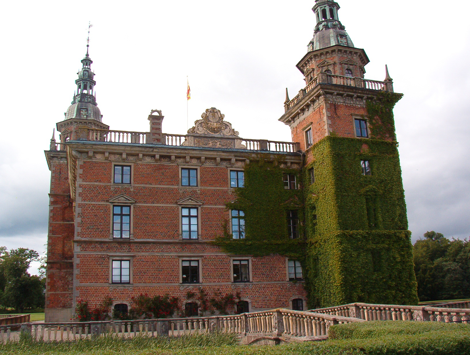 This castle is located in Skåne in southern Sweden, between Ystad and Malmö, near the small town Svarte In recent summers there have been theaters held in the grass outside of the castle. Date: Late July, 2003